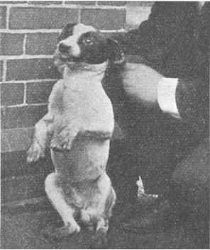 Max Rothmann's dog after neocortex removal